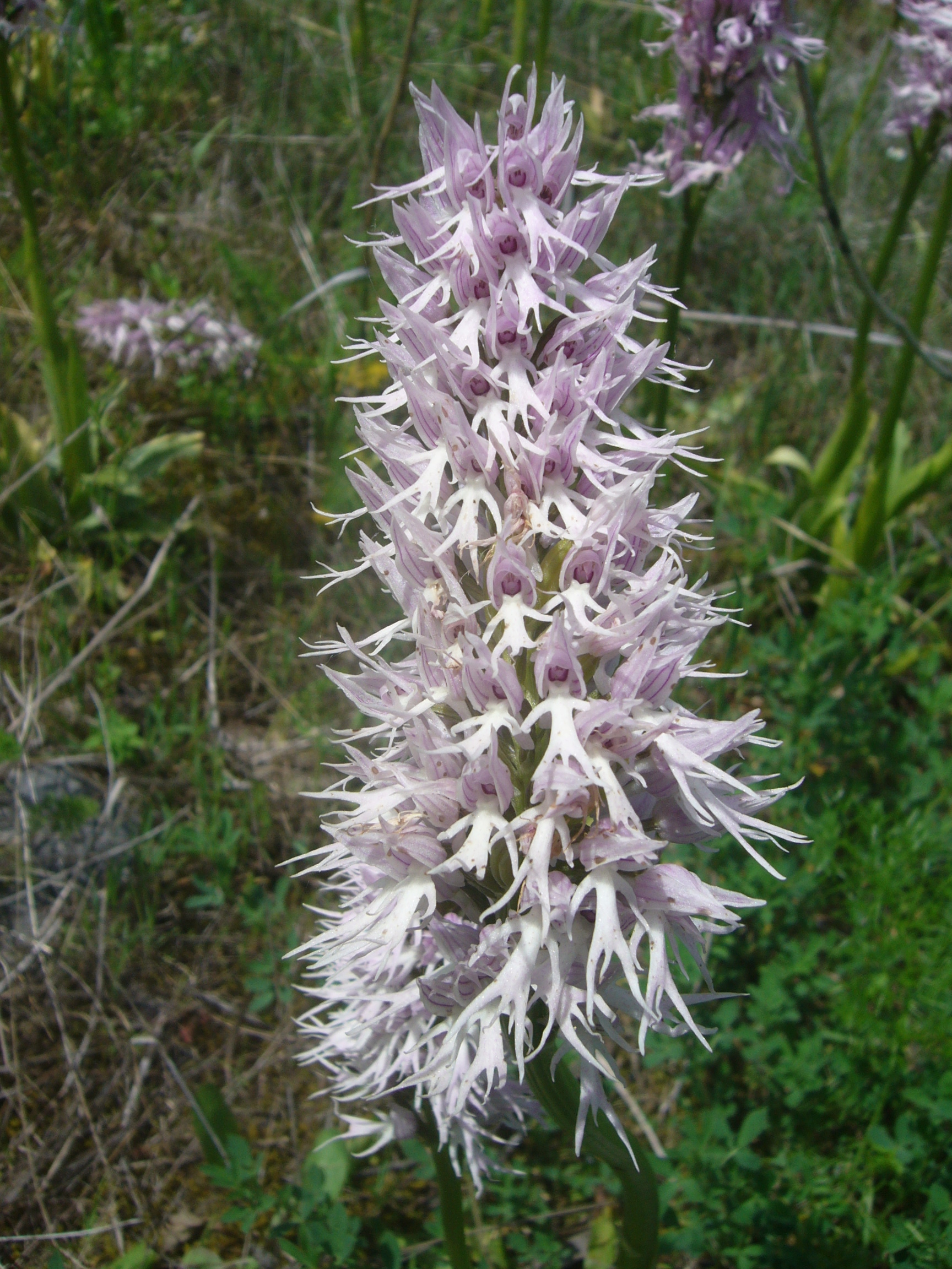 Orchis italica in the Natural Park of Serra de Enciña de Lastra, Orense, Galicia, Spain.